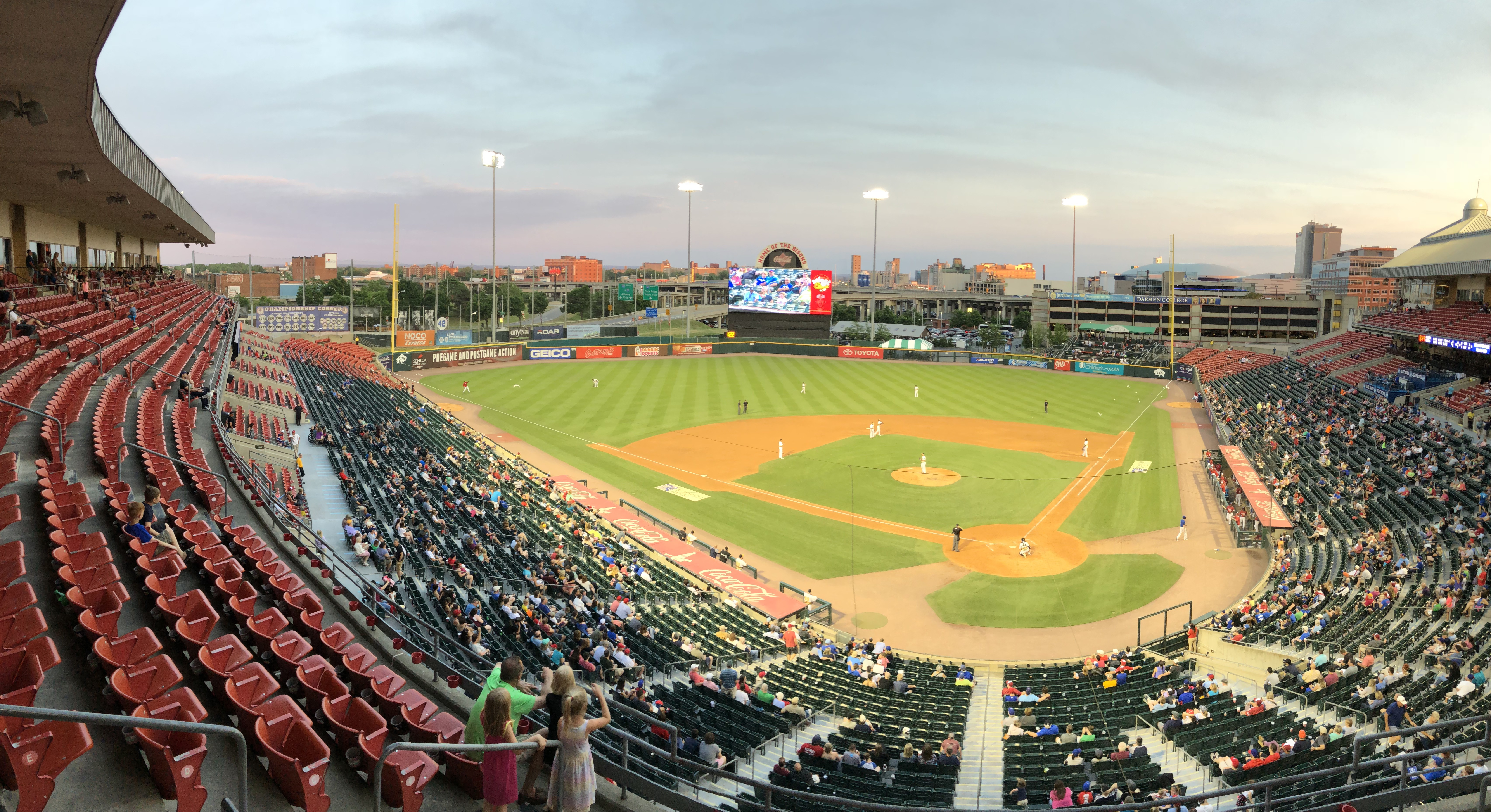 Coca Cola Field on June 16, 2018